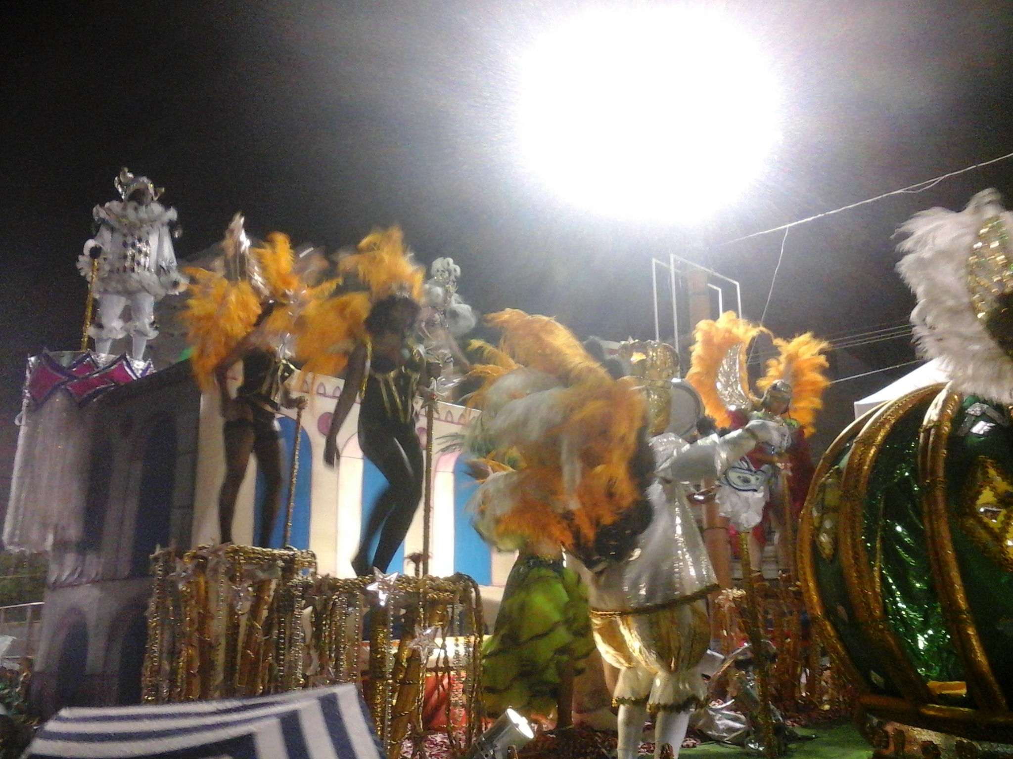 GRES Gato de Bonsucesso